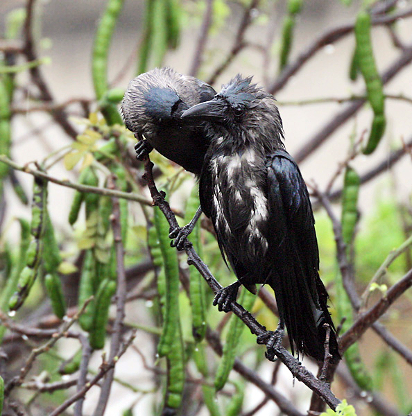 House Crow Corvus splendens in Kolkata, West Bengal, India.